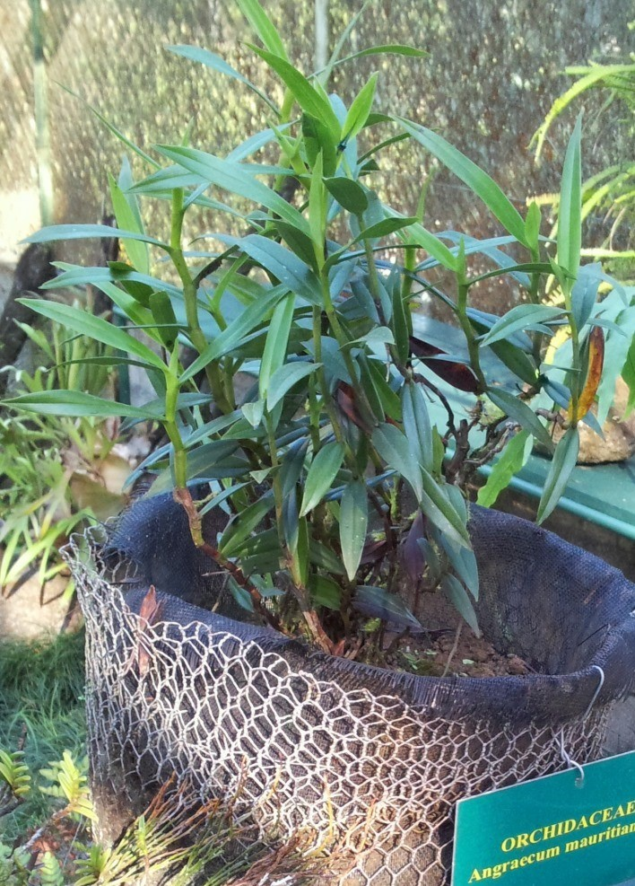 Angraecum mauritianum orchid - Monvert fernery Mauritius